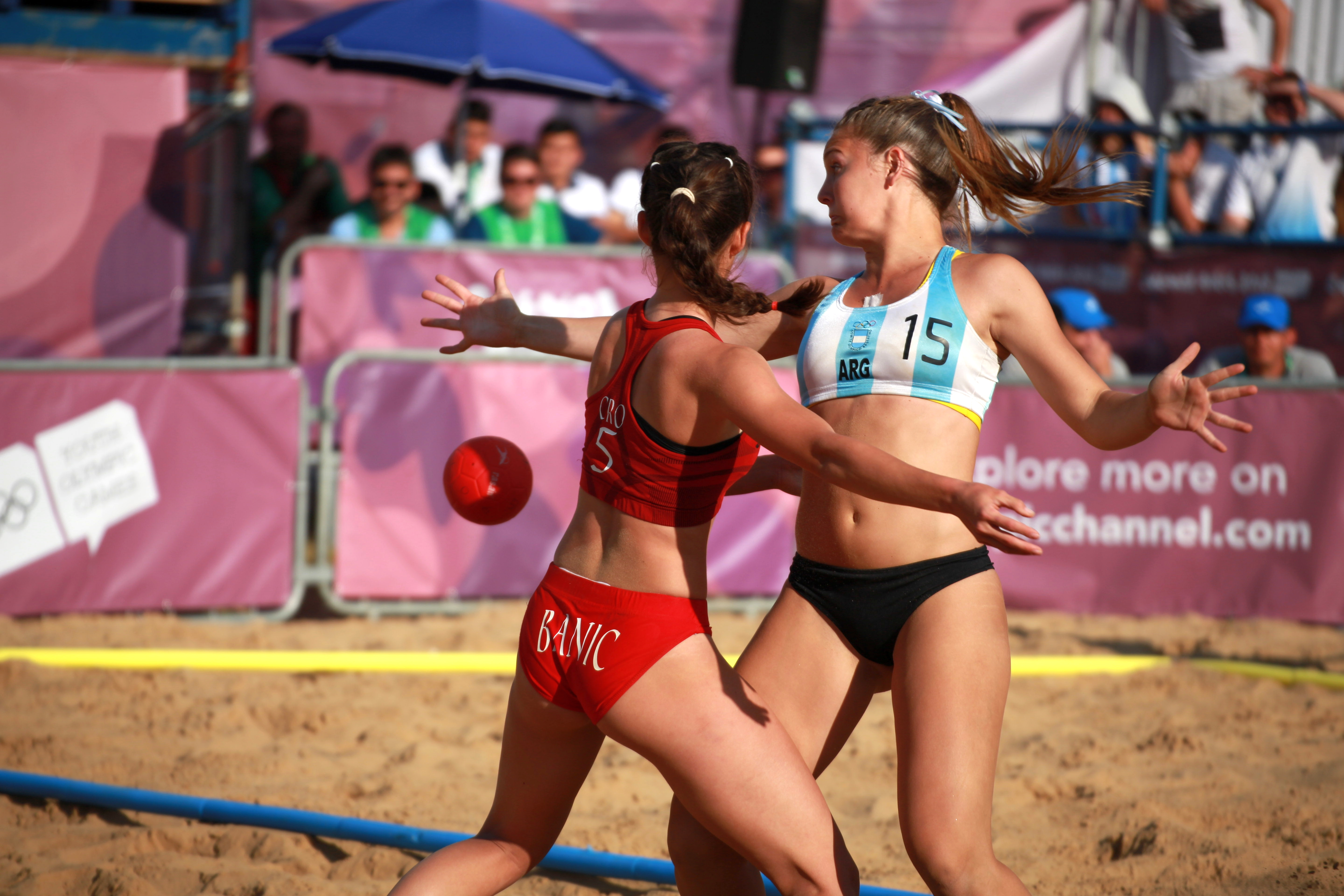 Beach handball at the 2018 Summer Youth Olympics in Buenos Aires at 13 October 2018 – Girls Gold Medal Match – Argentina-Croatia 2:0